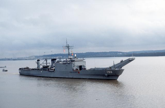 Details: ID: DNST8705477 Service Depicted: Navy Command Shown: N0113 A starboard bow view of the tank landing ship USS SAGINAW (LST-1188) underway after an open house at the Government Services Administration pier in Alexandria, Va. Camera Operator: DON S. MONTGOMERY Date Shot: 5 Apr 1987